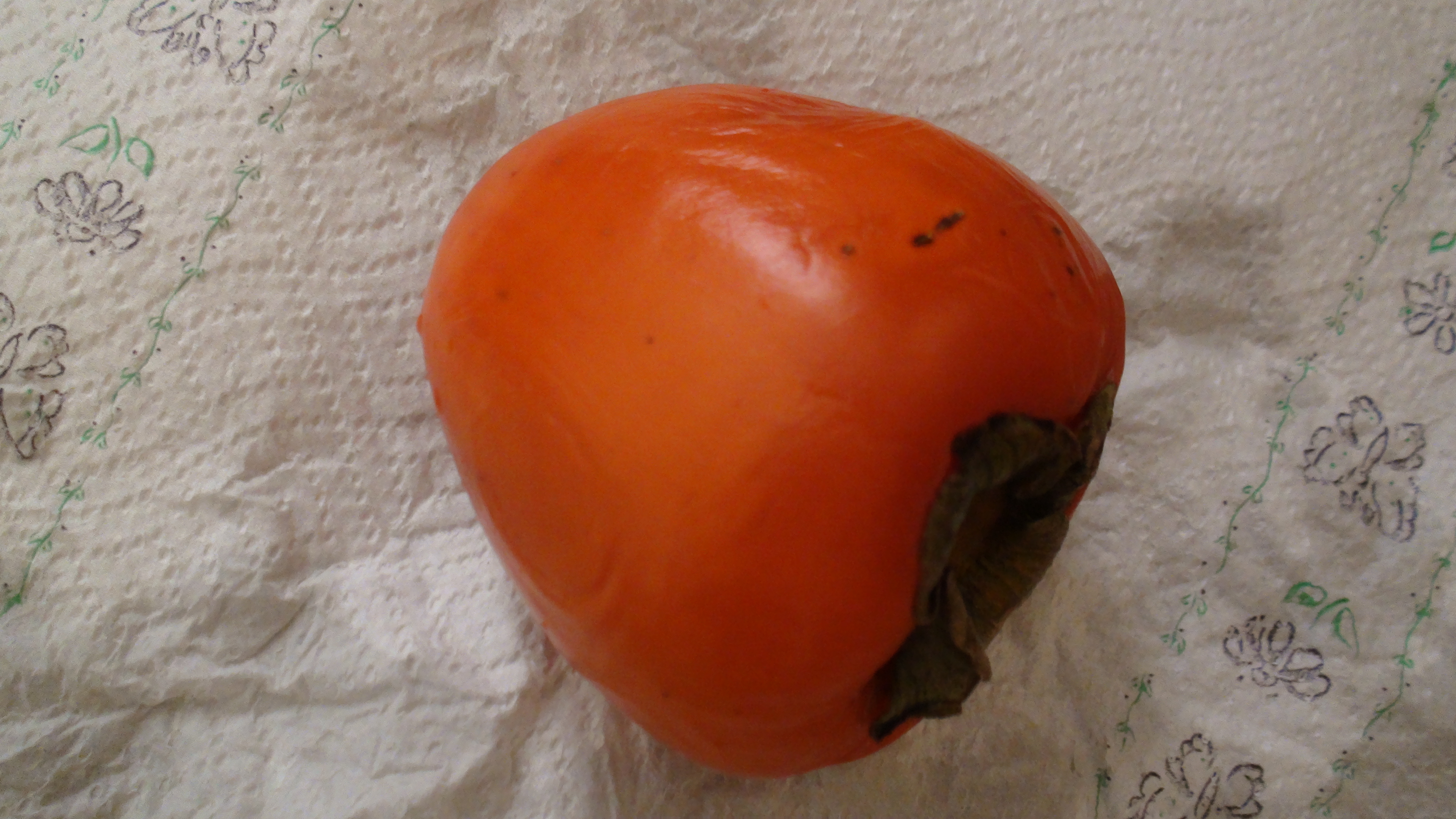 photo of a hachiya persimmon